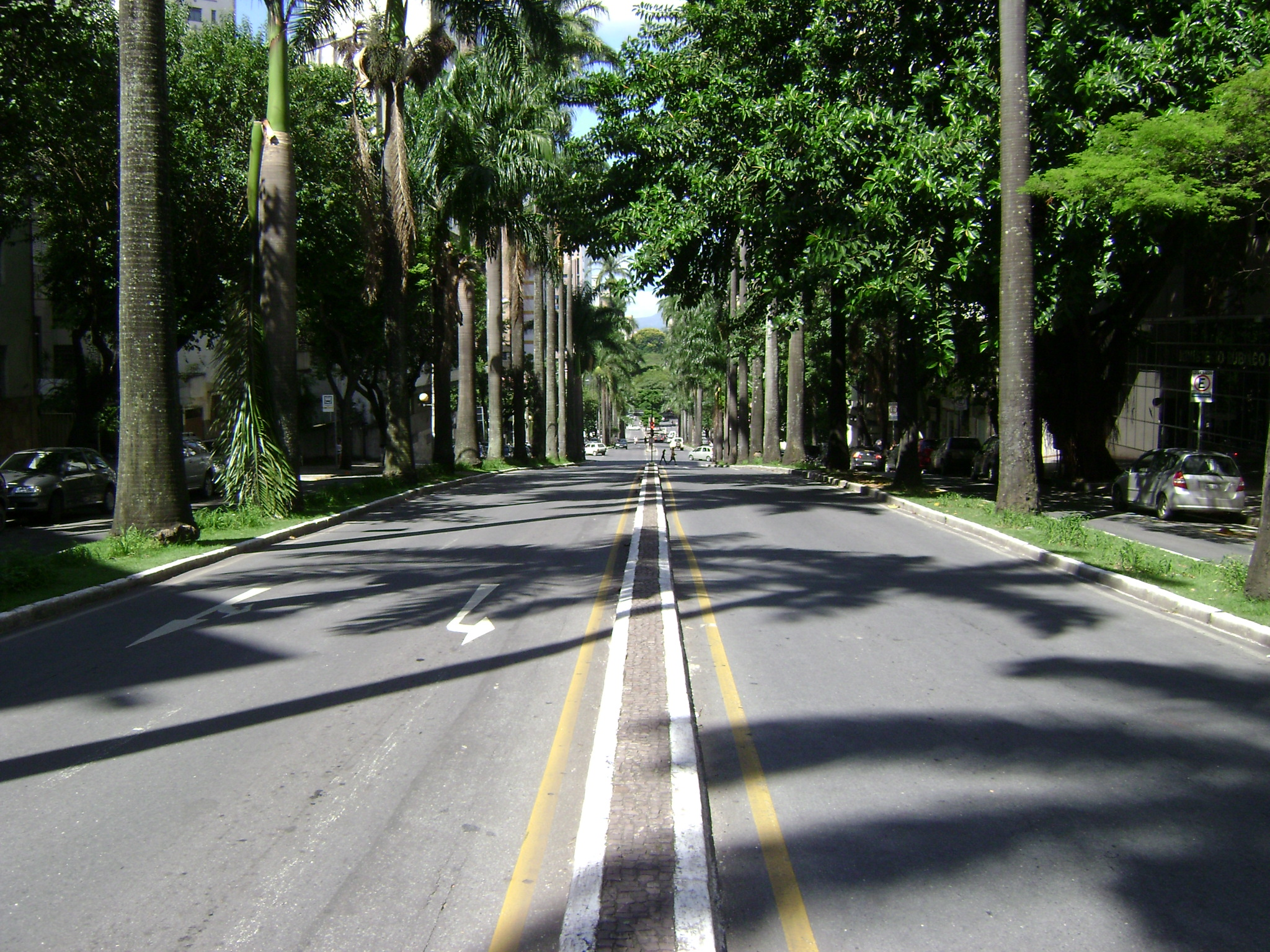 Avenida Brasil em Belo Horizonte